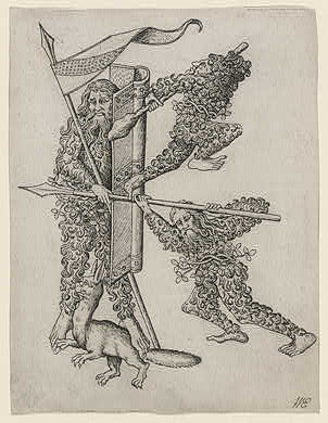 The Letter "K" from the Fantastic Alphabet, engraving, L.292